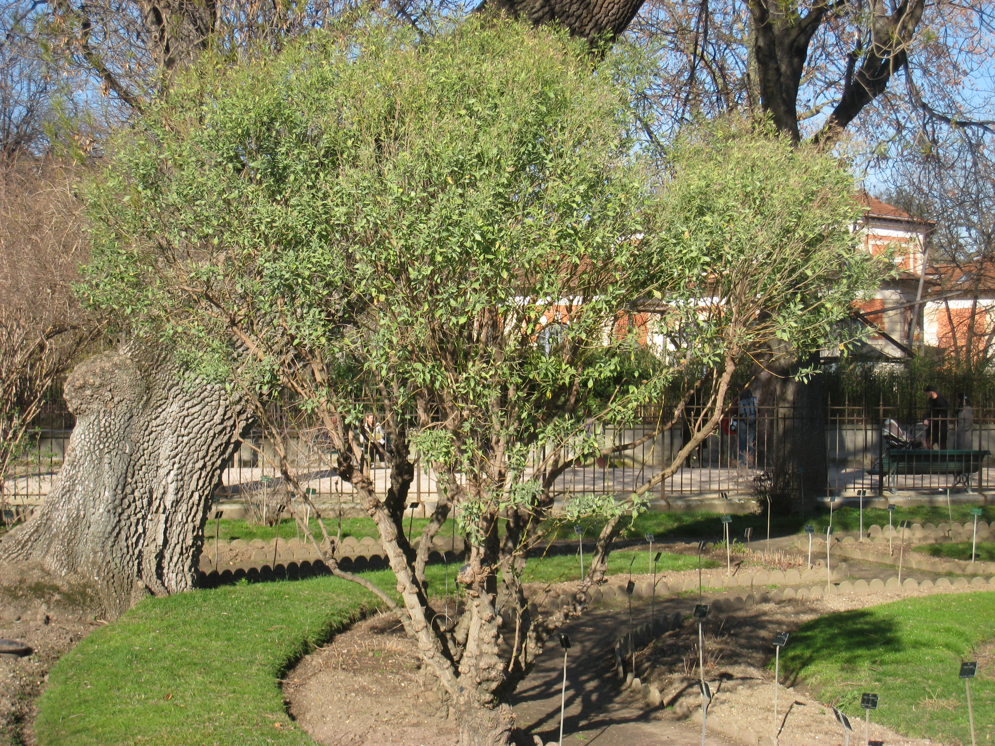 Baccharis halimifolia in the Jardin des Plantes de Paris, Paris, France.